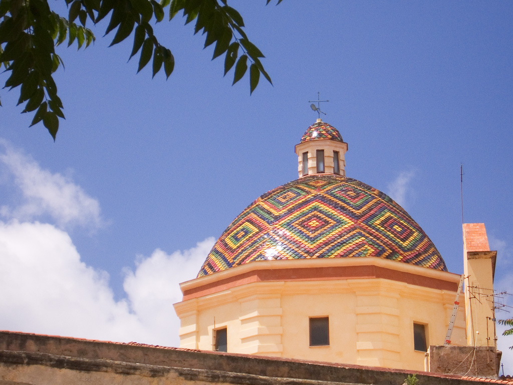 Such a beautiful dome! Dome of church San Michele, Alghero/Italy.